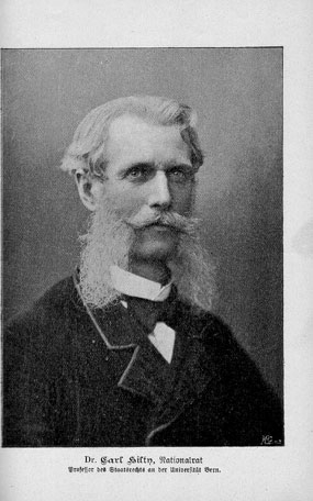 Carl Hilty (1833-1908) swiss law maker, writer and lay theologian.